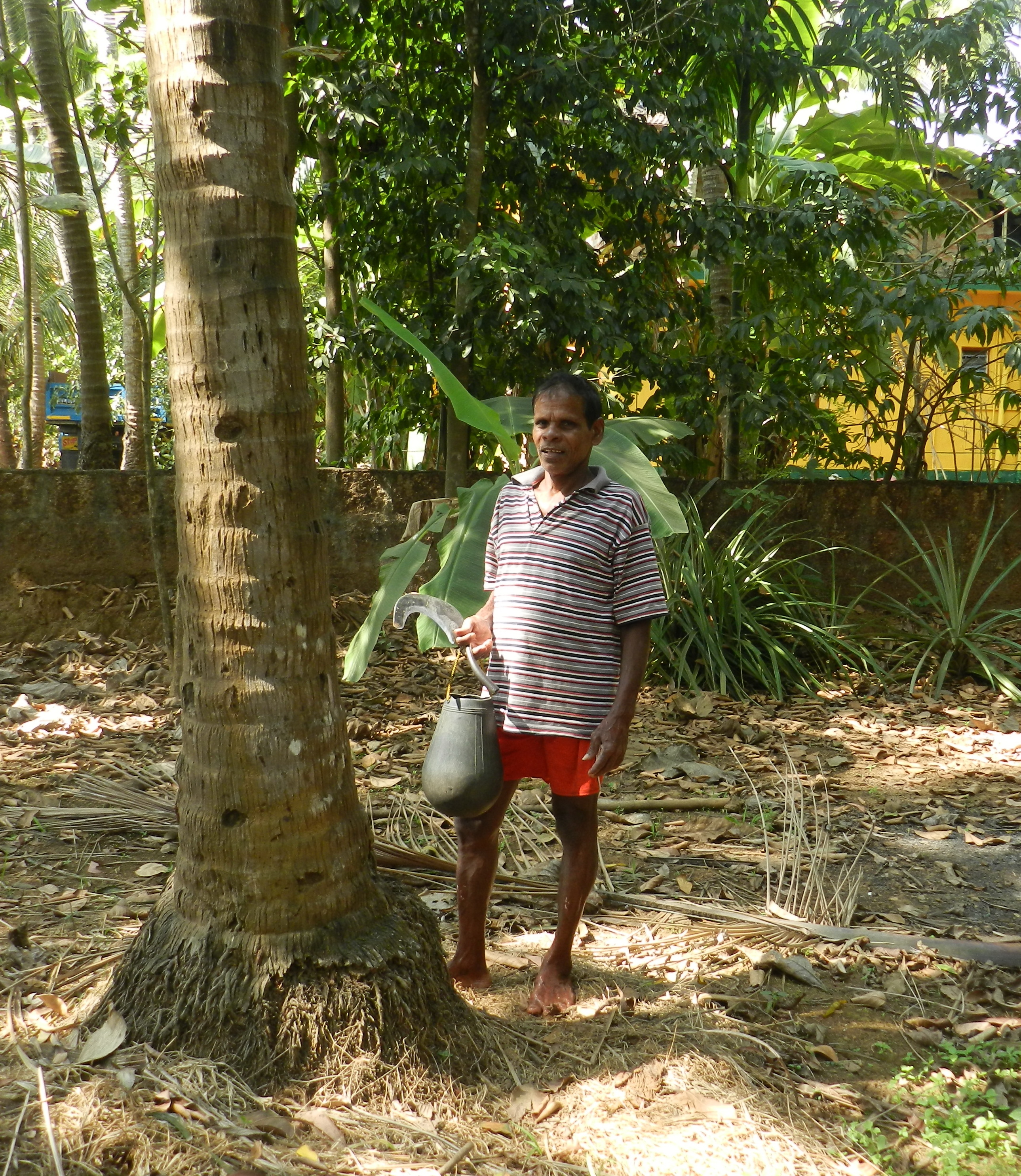 Ganvcho render (Maddar choddon sur kaddpi)